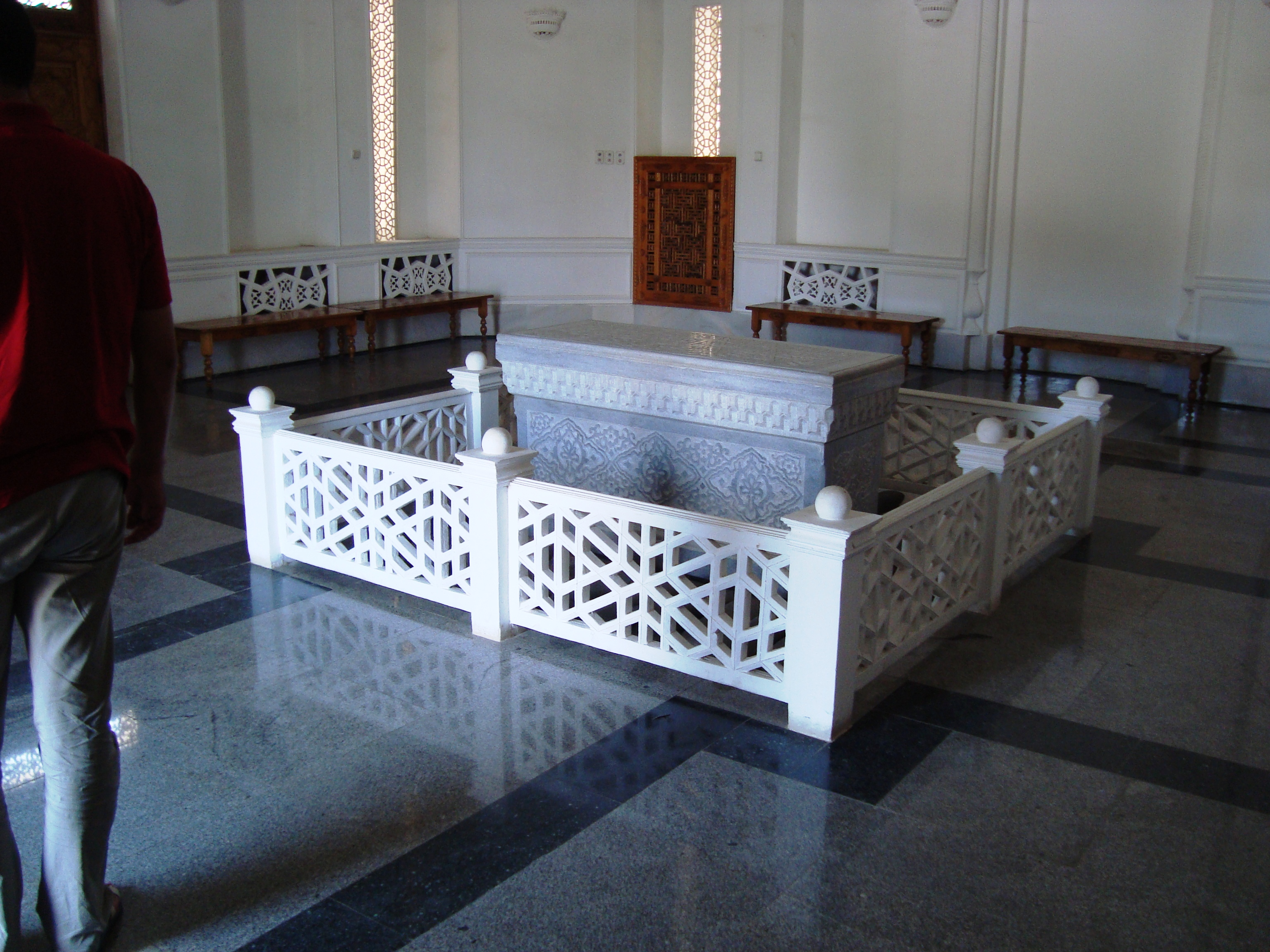 Grave of Imam Abu Mansur al-Maturidi.